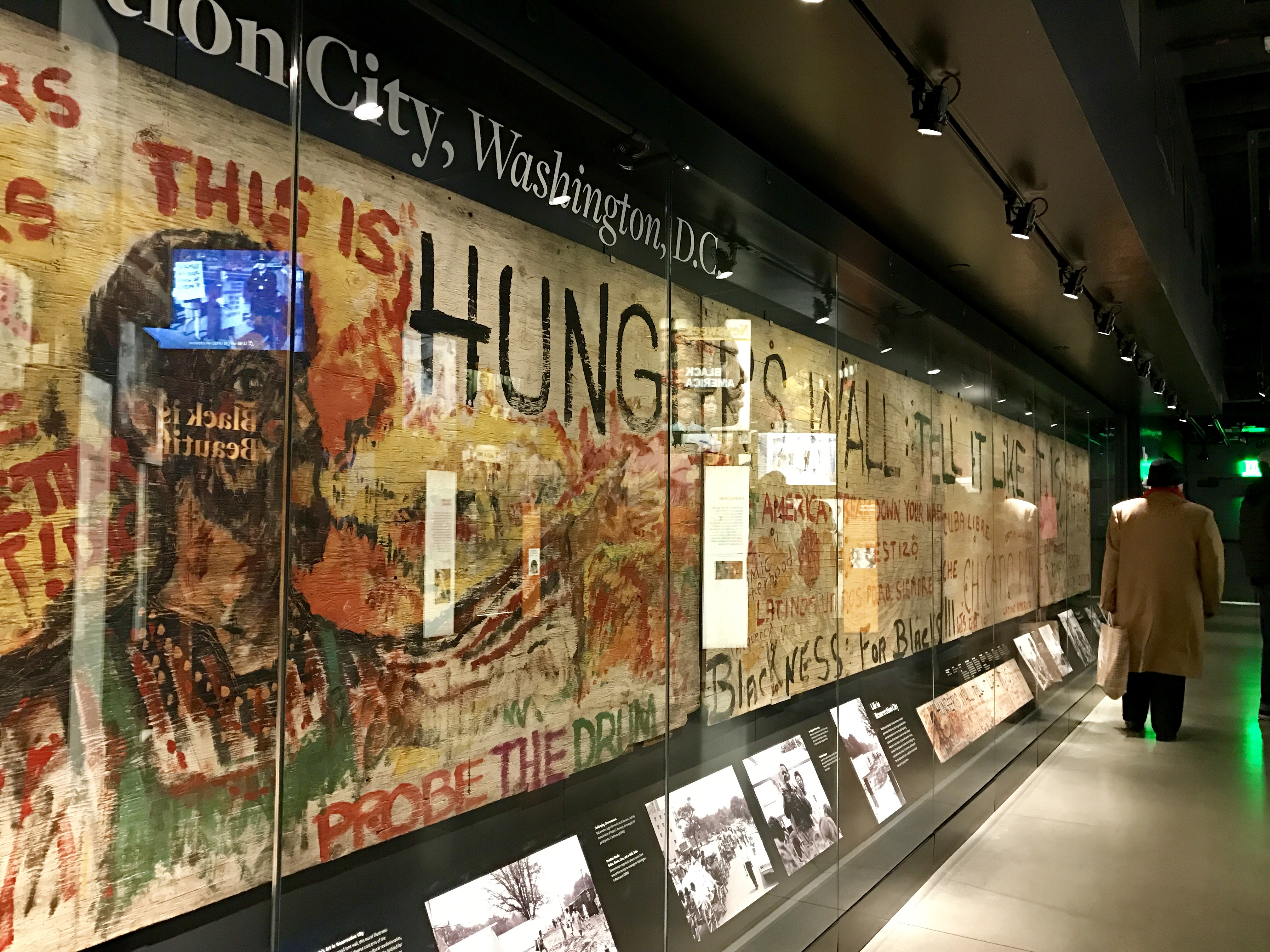 "The Hunger Wall" was once part of a mural that was 32-feet long, 12-feet high and 12-feet wide. It made up one wall of what was called City Hall in Resurrection City, USA. Now on display at the National Museum of African American History and Culture (NMAAHC), Washington, D.C. [1]